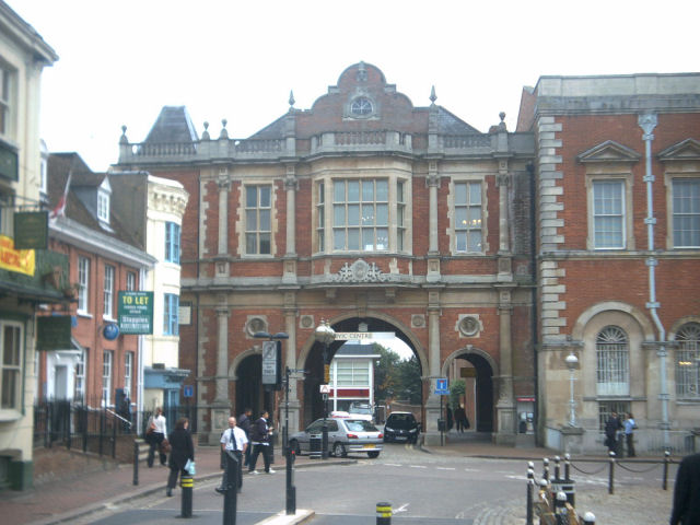 The historic Corn Exchange building in Aylesbury, Buckinghamshire